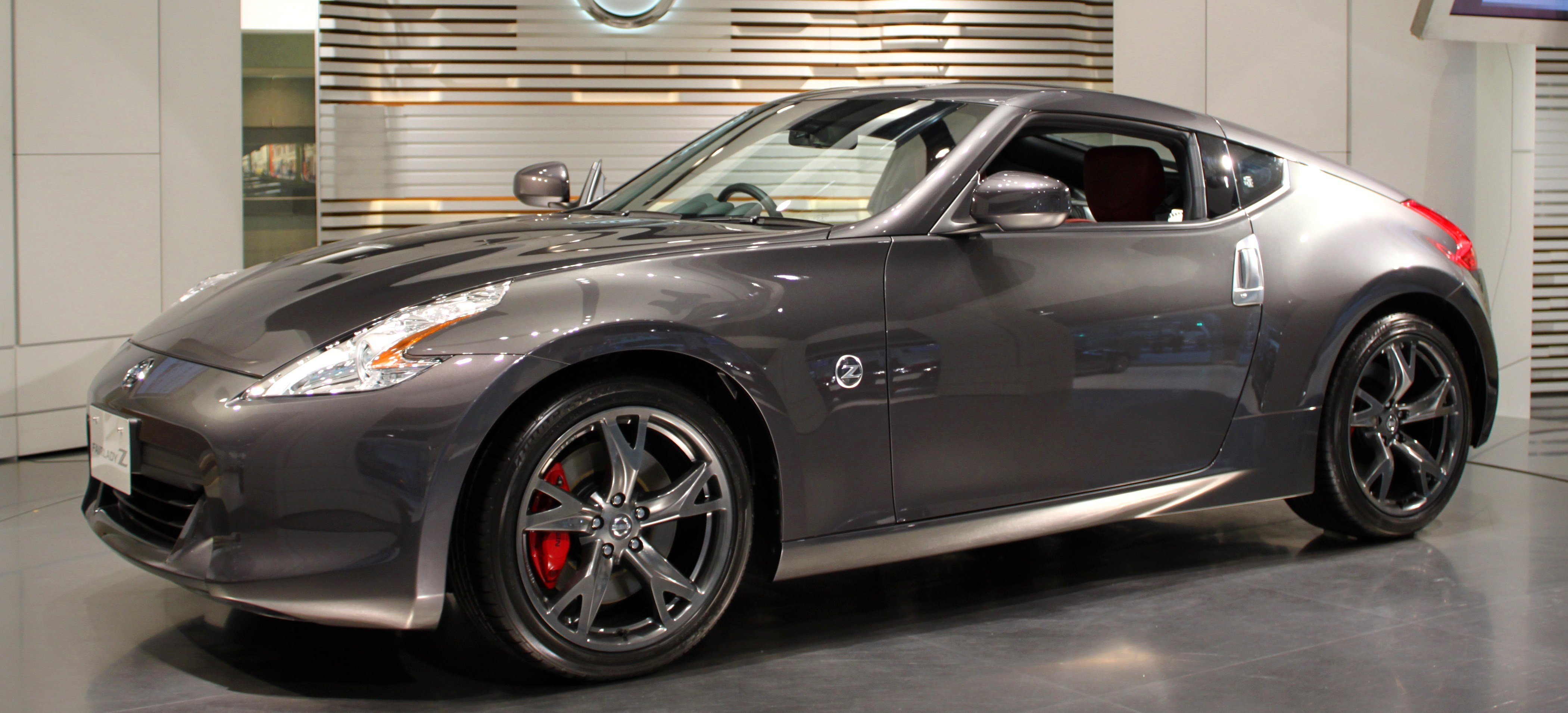 NISSAN FAIRLADY Z Z34